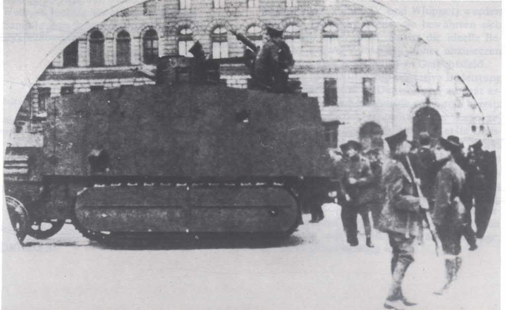 German heavy half-track armored car based on the Marienwagen II artillery tractor. Berlin, January 1919